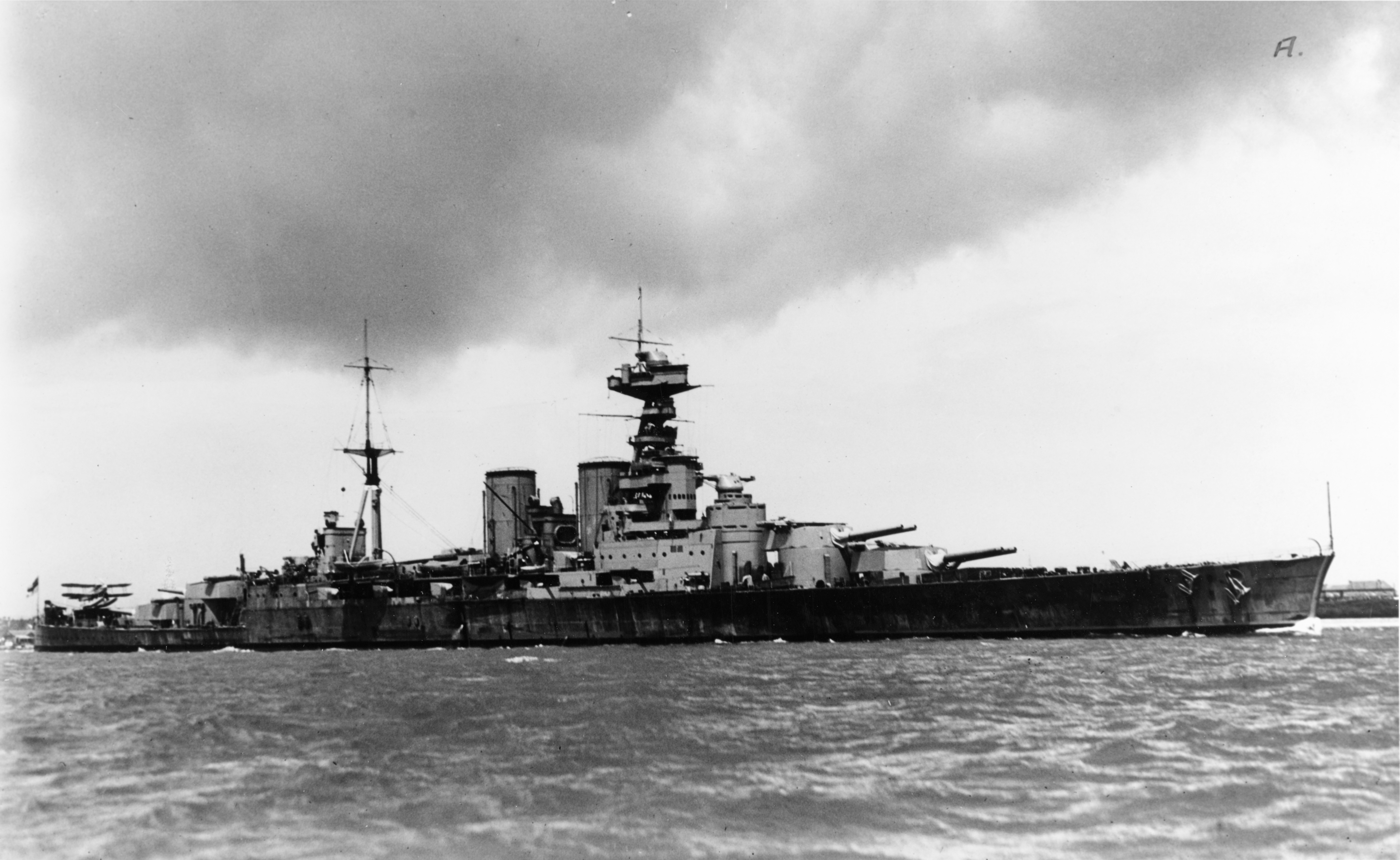 British battlecruiser HMS Hood circa 1932 while fitted with an aircraft catapult aft Caption read: Photo # NH 60418 HMS Hood, photographed circa the early 1930s